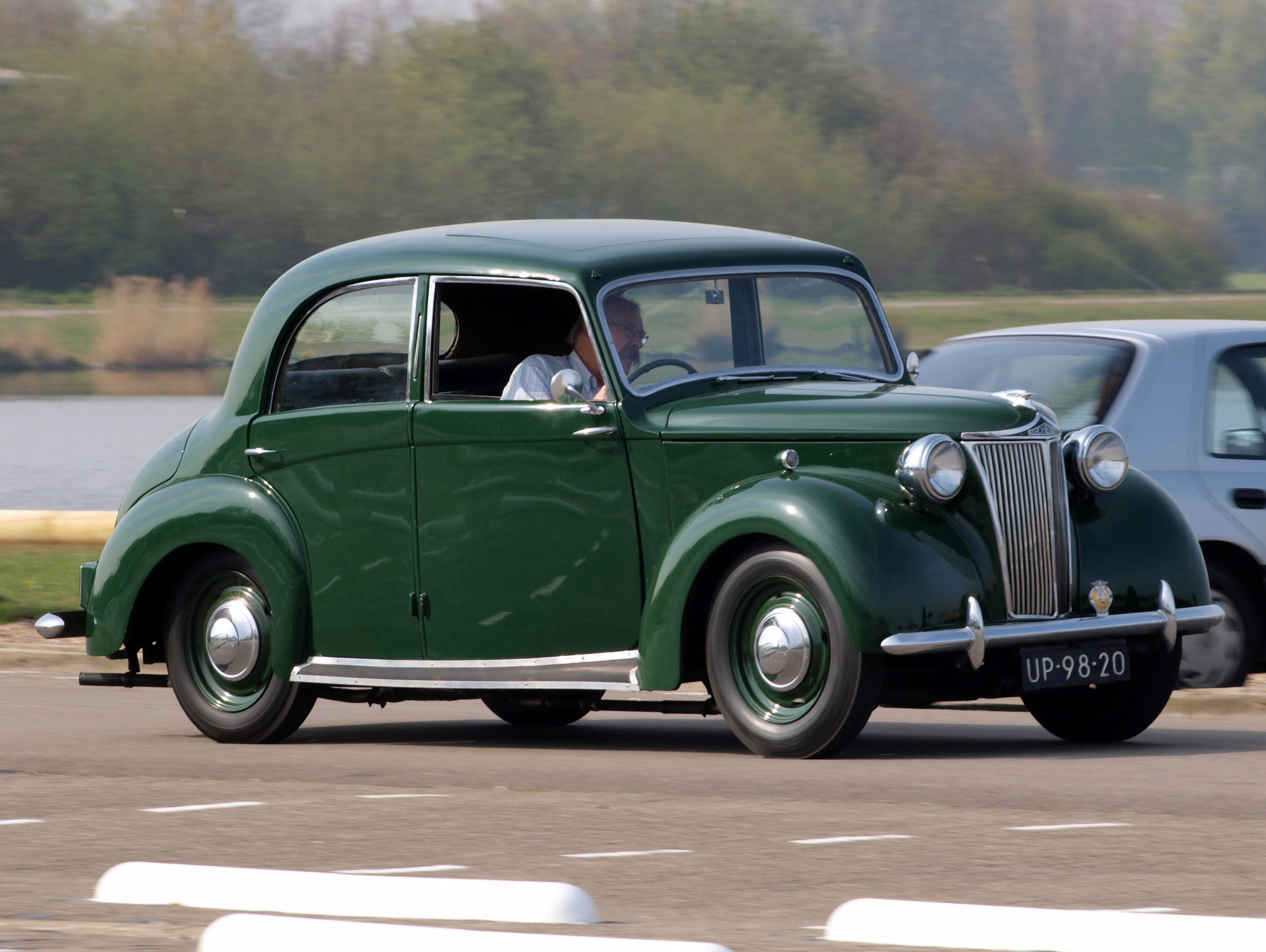 Cars and motorcycles photographed at the Voorschotense Oldtimer Vereniging Show, Valkenburgse meer, The Netherlands. OLYMPUS DIGITAL CAMERA This sports saloon coachwork on the Lanchester LD10 is not the standard all-steel body but coachbuilt by Barker